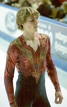 Fedor Andreev competes his long program at the 2002 Canadian Championships in Hamilton, Ontario. Photo by me, Vesperholly 08:05, 17 July 2006 (UTC)